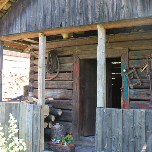 Traditional Farm of The Lach of Sącz Ethnic Group "Kubalówka" - granary in Podegrodzie (Lesser Poland Voivodeship)